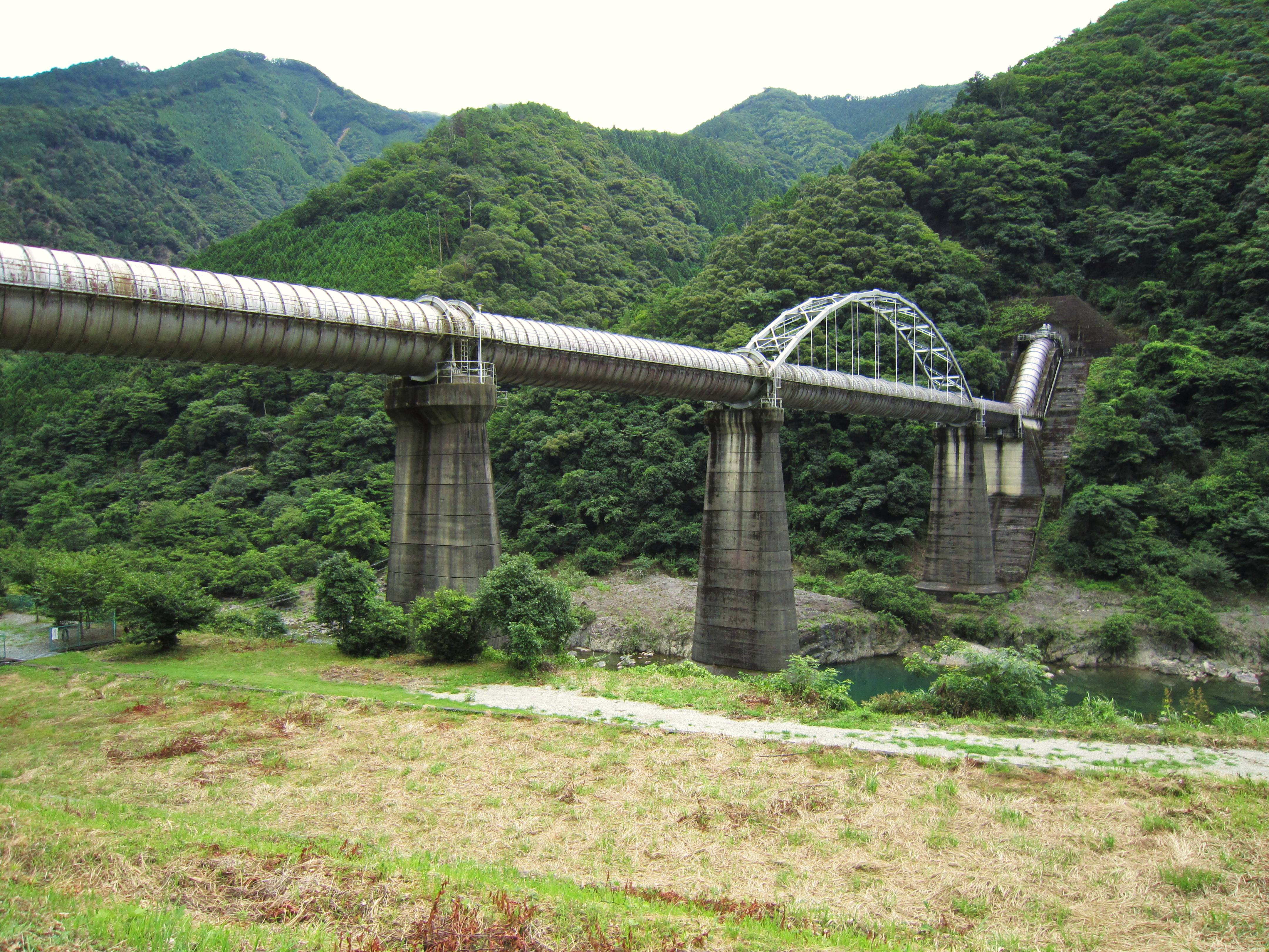 Totsukawa I power station aqueduct.